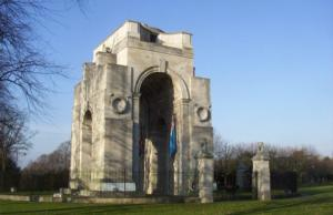 victoria park leicester, taken by a. brady, moved from (en)